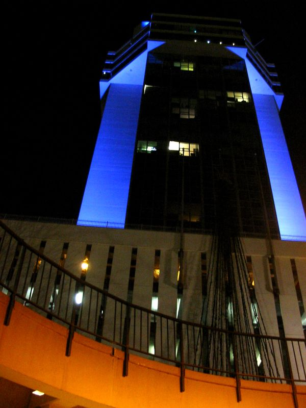 garvey_night